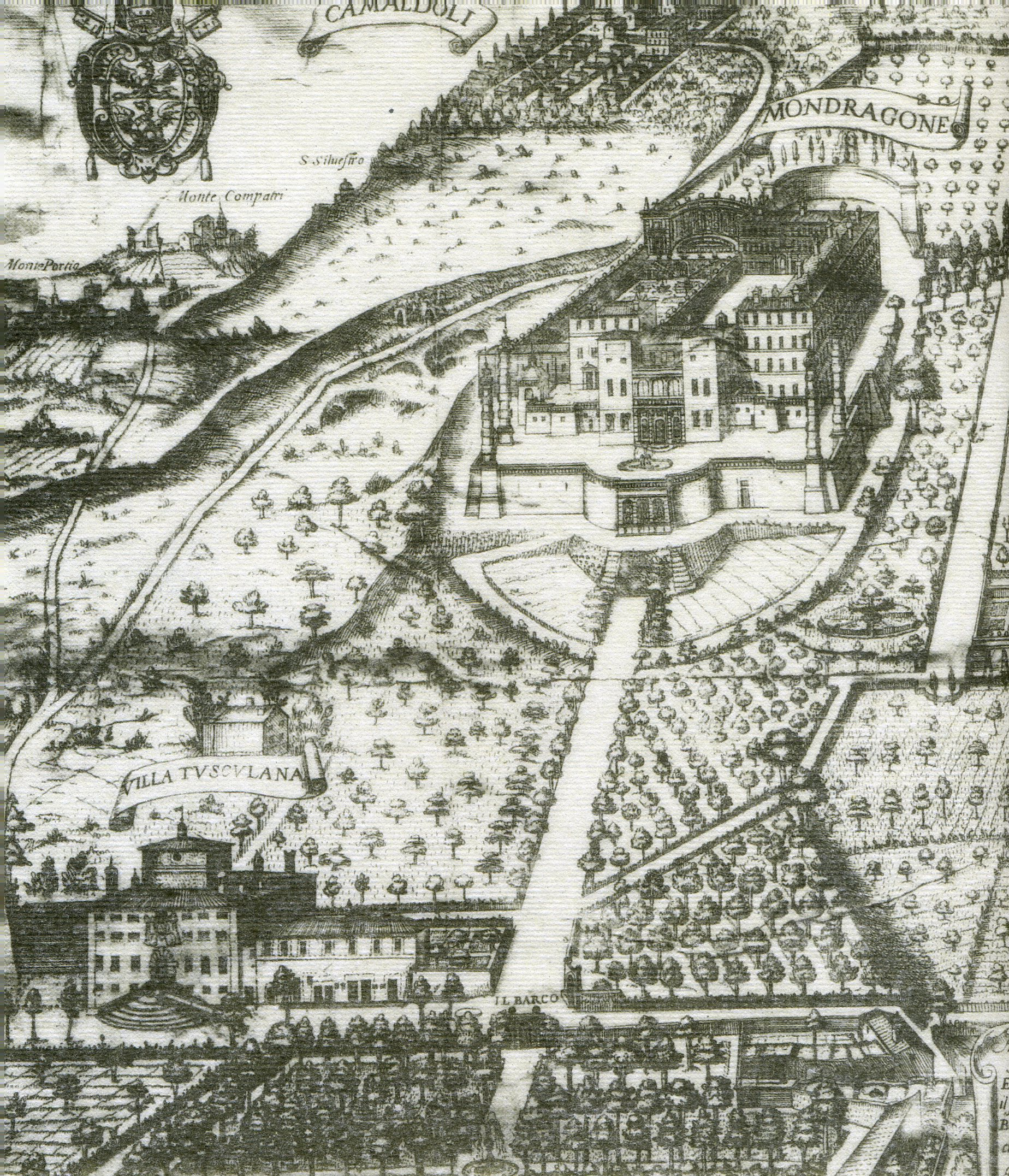 Photo of this old print (more 100 years)taken by the author Luiclemens